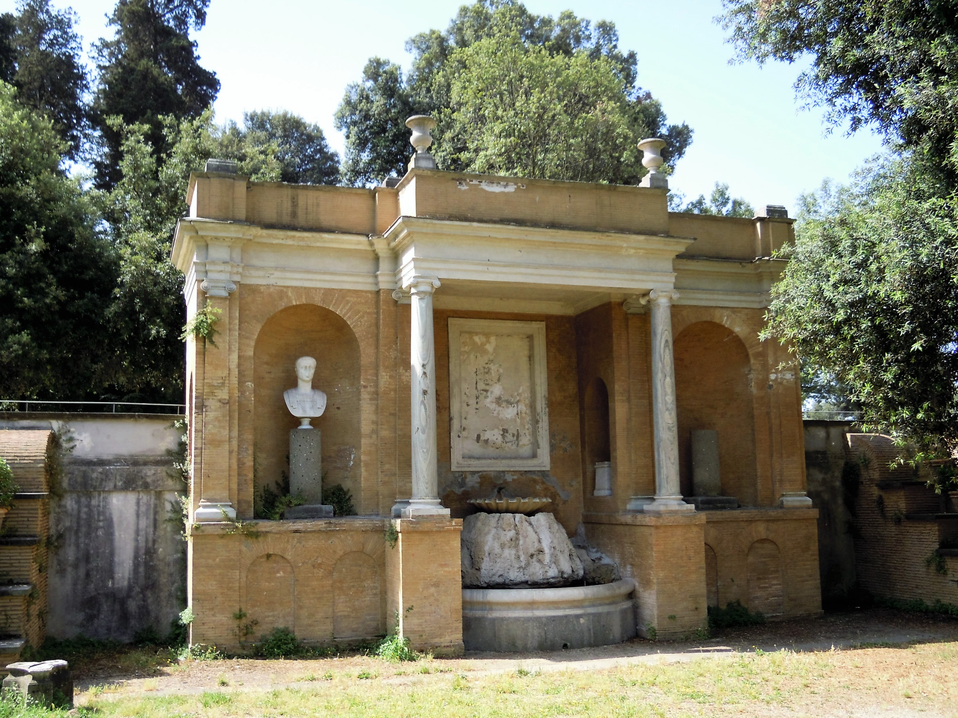 Rome, Villa Torlonia: the fountain of Giovan Battista Caretti